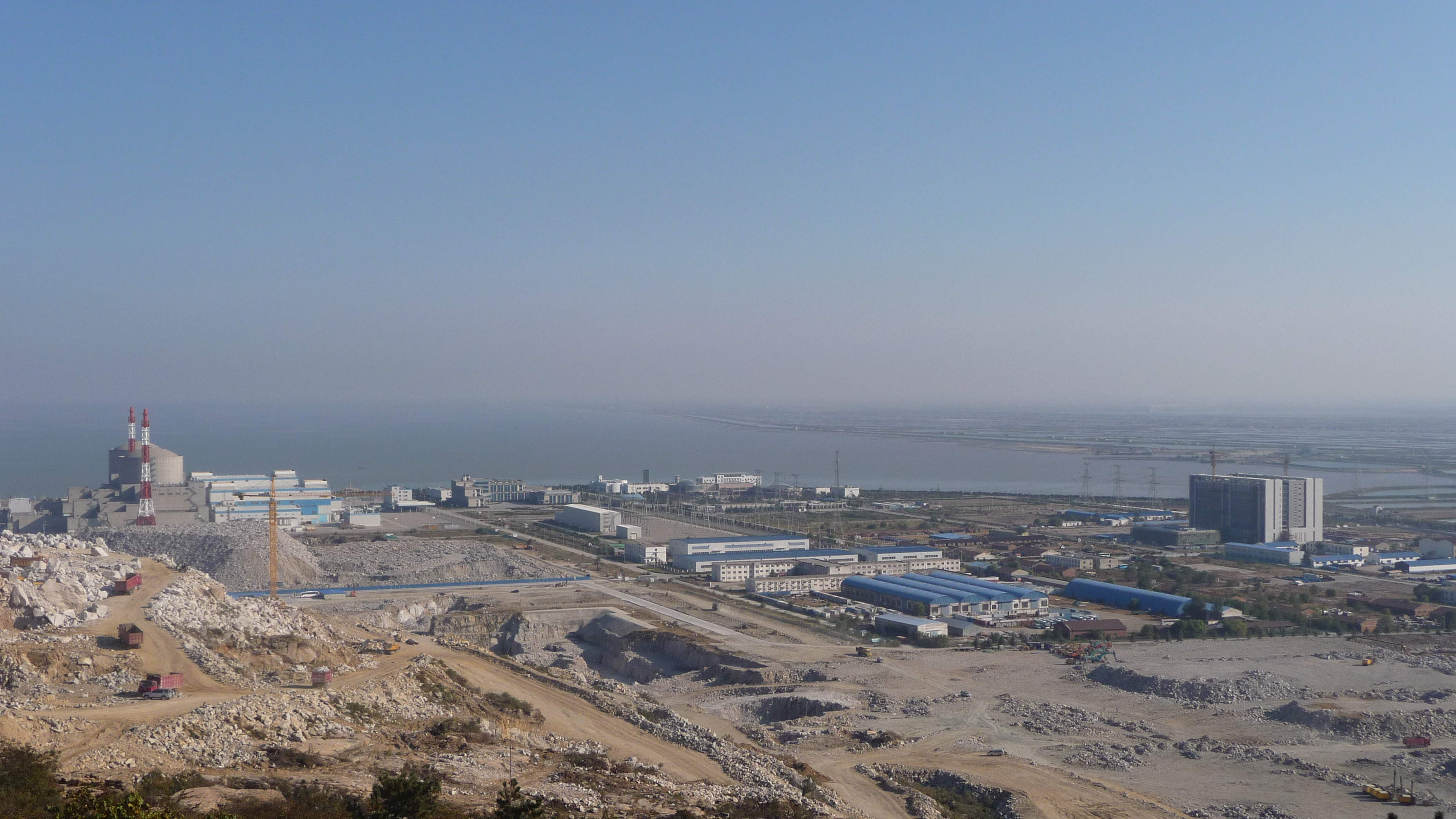 The second phase construction of Tianwan Nuclear Power Plant